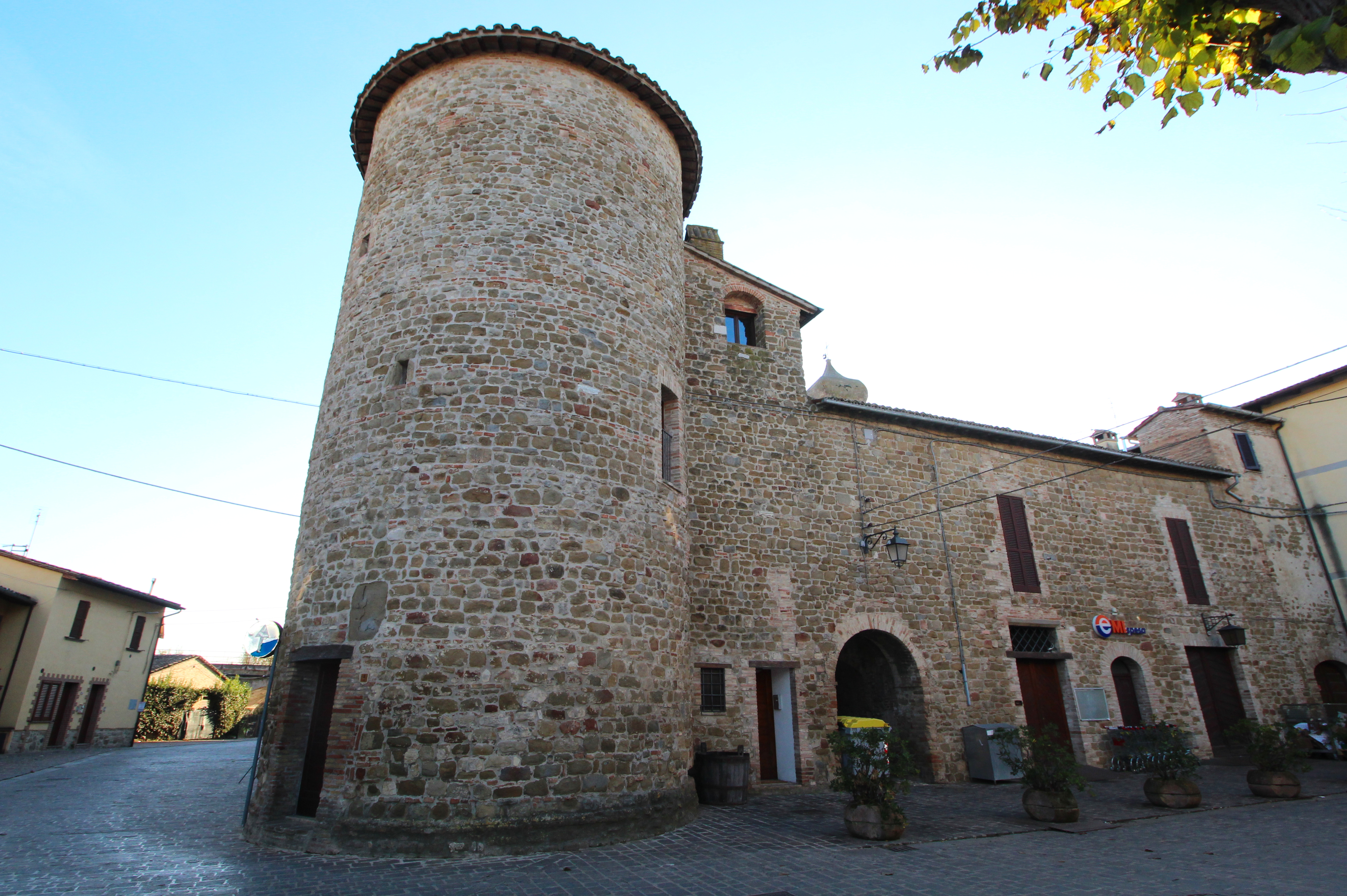 Petrignano, hamlet of Assisi, Province of Perugia, Umbria, Italy